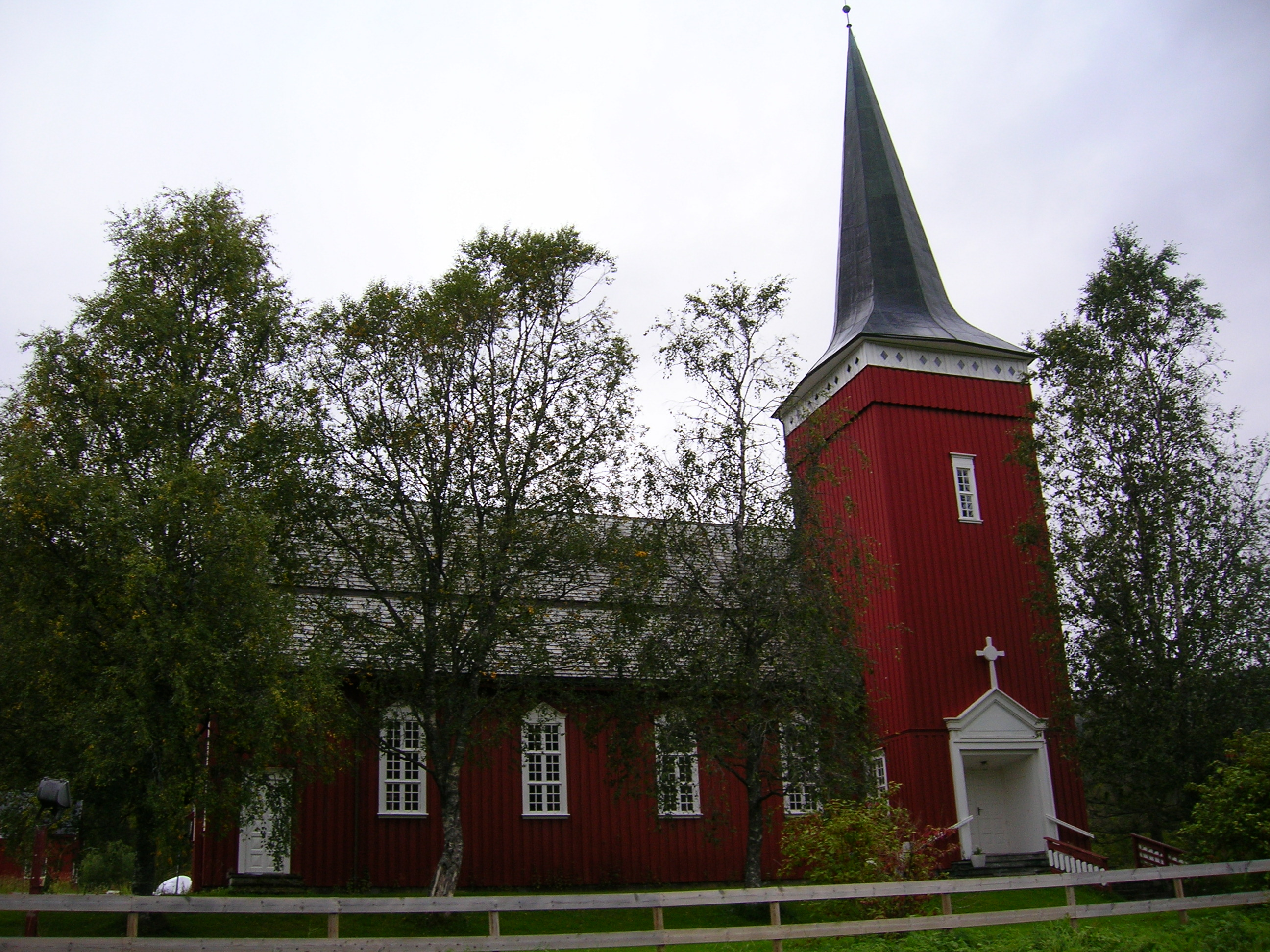 Elsfjord church in Vefsn municipality, Nordland, Norway, Photo September 9, 2007 with a Nikon Coolpix 5600 5,1 Megapixel camera.